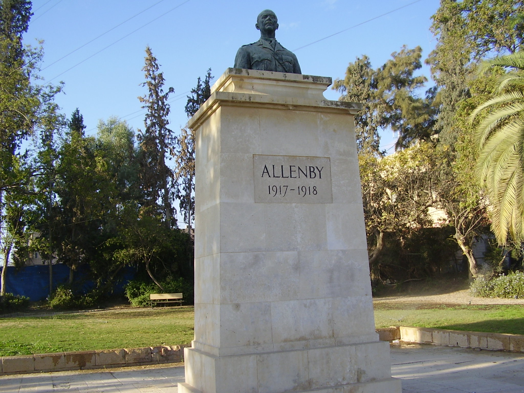 allenby memorial in be\'er sheva